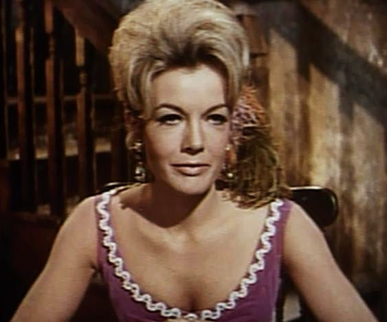 Joanna Barnes in The War Wagon - trailer (cropped screenshot)